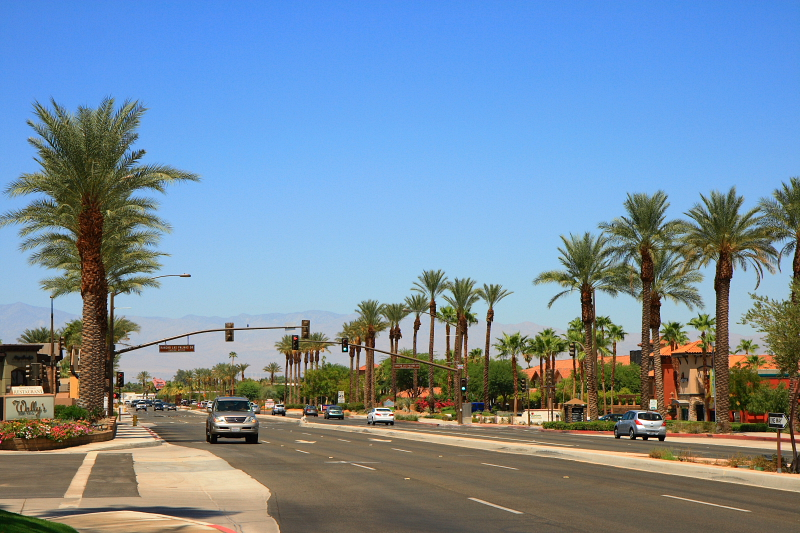 Intersection of Rancho Las Palmas Drive and California State Route 111 in Rancho Mirage, California.